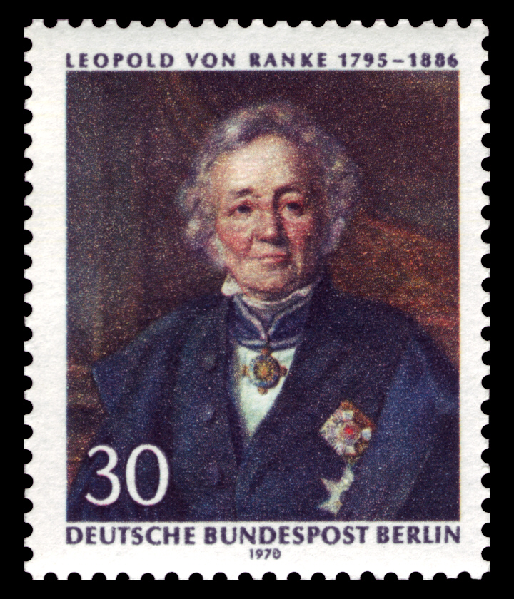 175th day of birth of Leopold von Ranke (1795–1886)